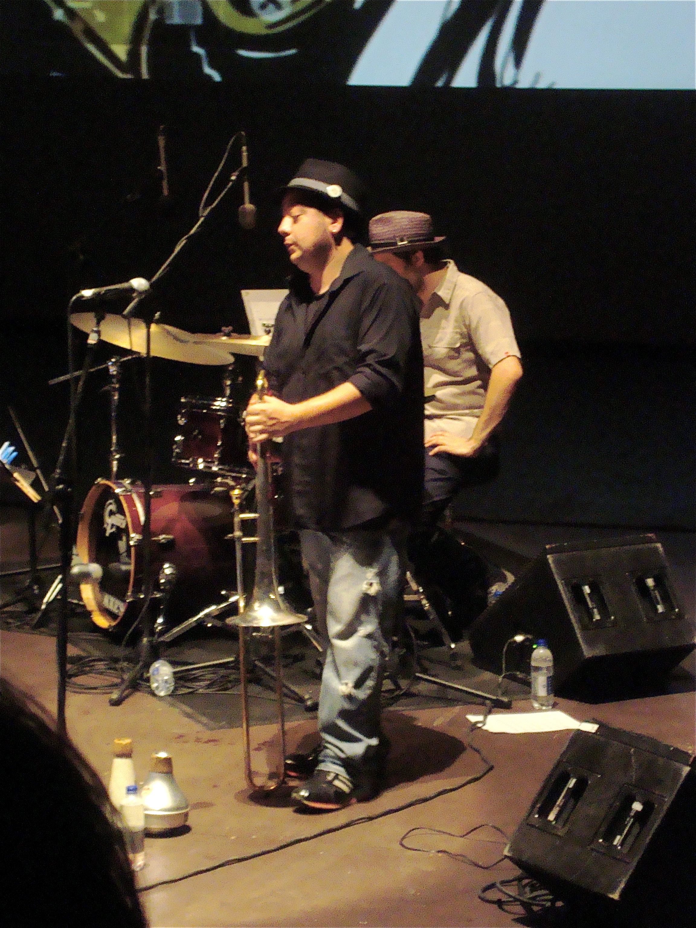 Italian jazz tombonist Mauro Ottolini during a concert at villa Adriana, Tivoli, Italy in july 2010.